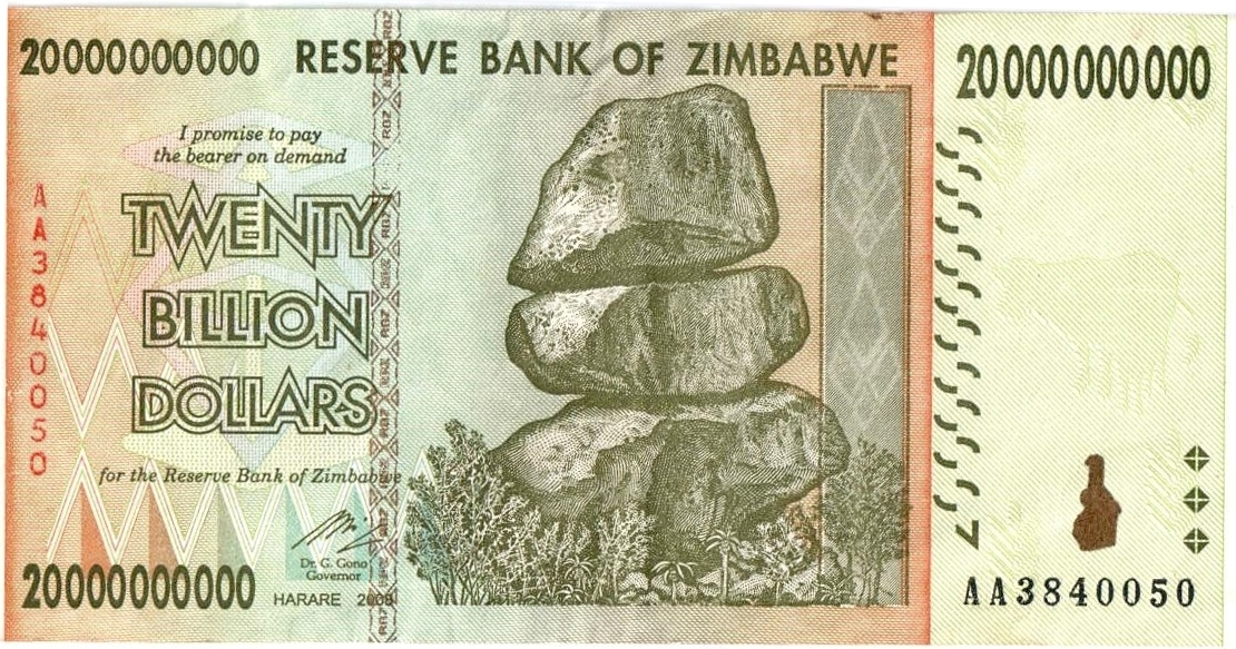 A 20 Billion Zimbabwean Dollar note. An example of a currency meltdown during Hyperinflation